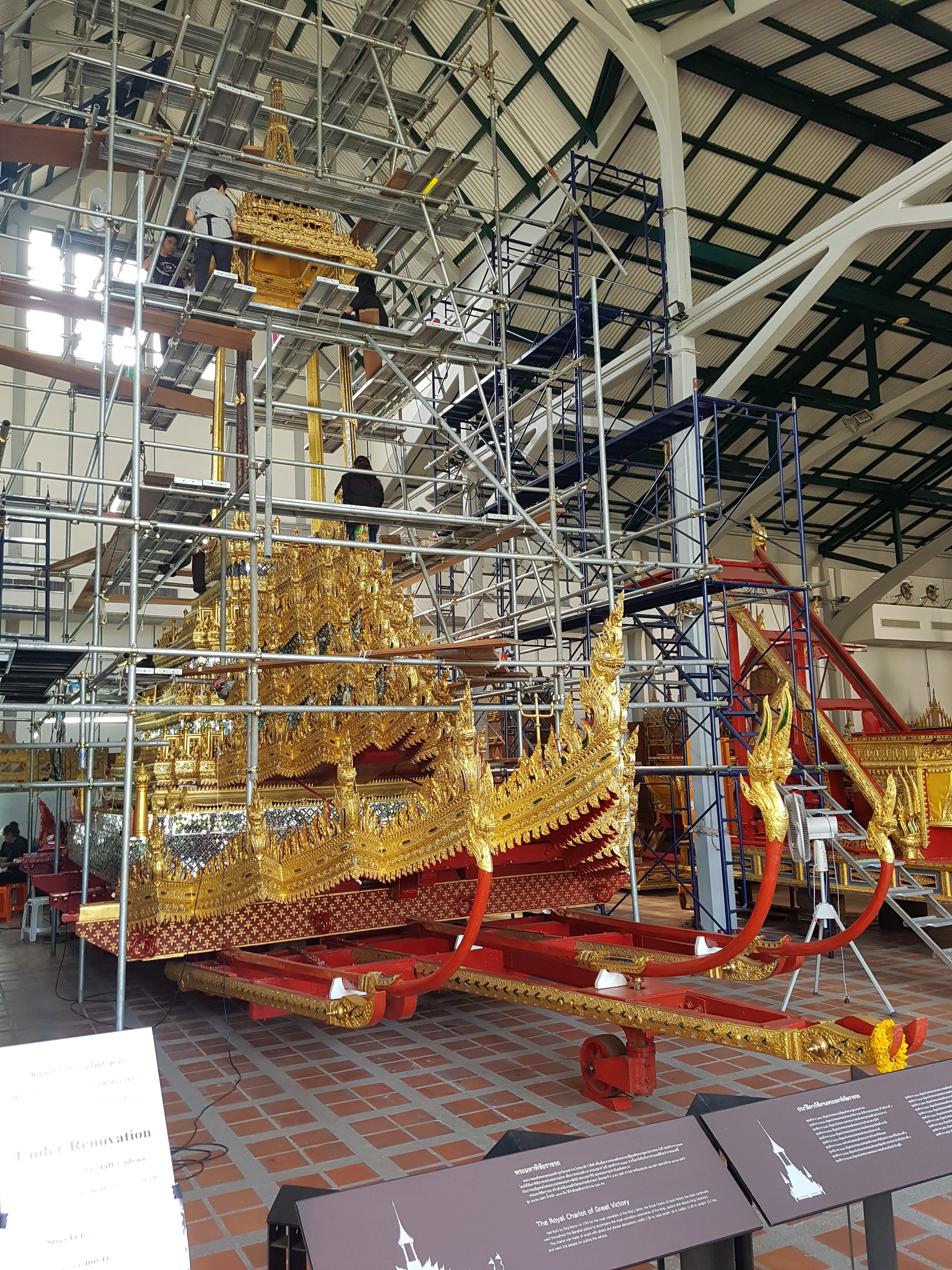 Place: Chariot Hall (โรงราชรถ), Bangkok National Museum, Bangkok, Thailand. Item: Great Chariot of Victory, built in 2338 BE (1795/96 CE).